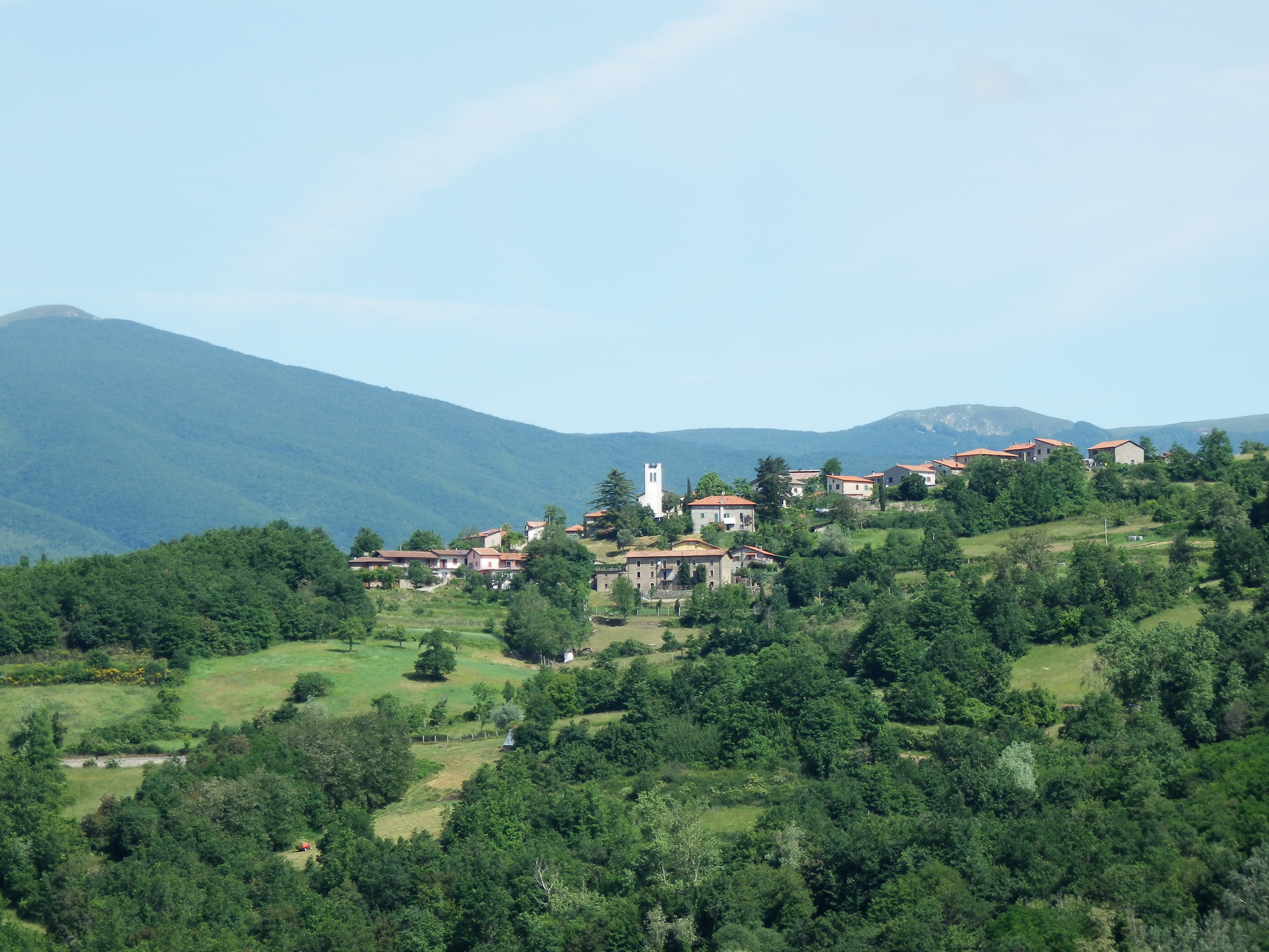 View of Caprignana from Verrucole, in San Romano in Garfagnana